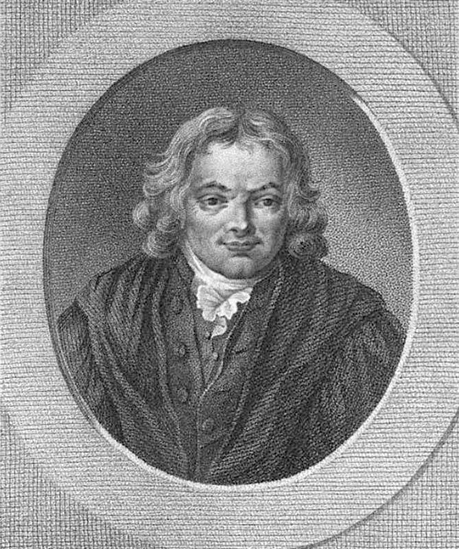 Jean Luzac (1746-1807) Dutch jurist, journalist, historian and philologist